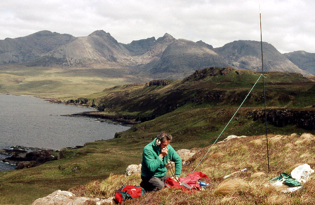 Portable radio operation from NG 31. Looking North to the Cullin Hills from NG3917. In the foreground radio amateur activating the remote 10km x 10km square NG31 for the Worked All Britain Award Scheme.